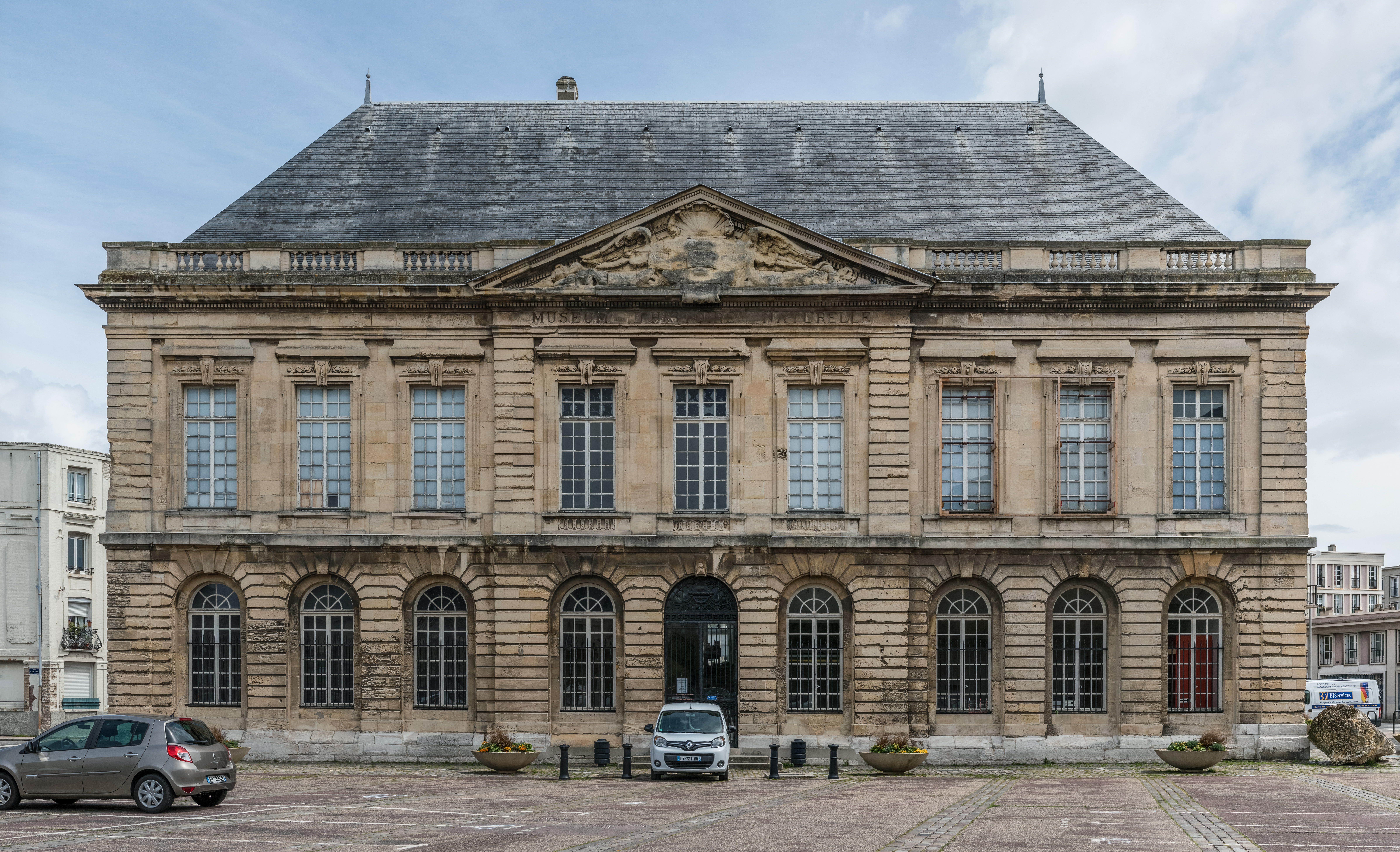 The Museum of Natural History of Le Havre as seen from west. The building depicted was opened in 1760 and originally used as the Palace of Justice and converted to a museum in 1876. .